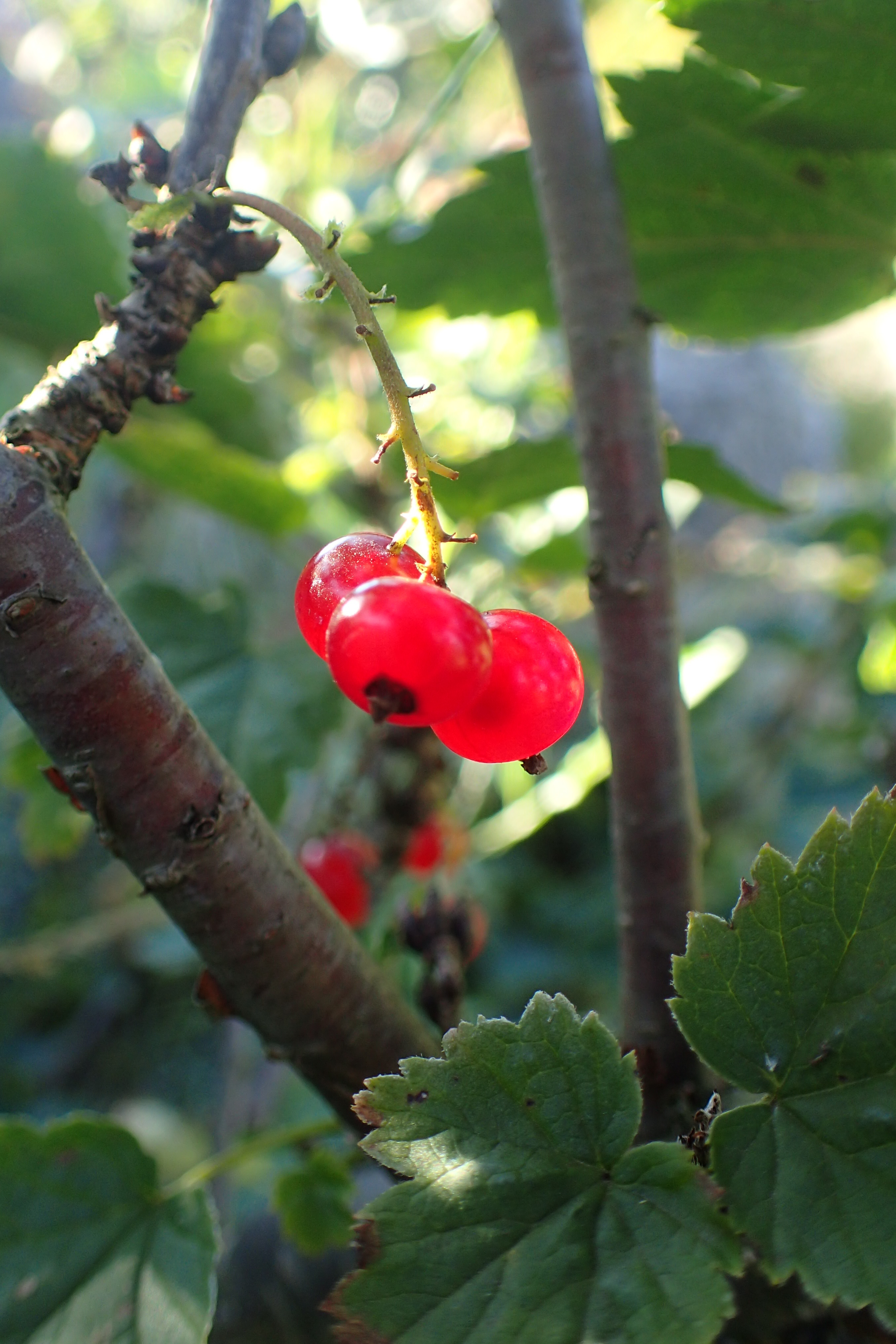 Ribes petraeum in PAN Botanical Garden in Warsaw